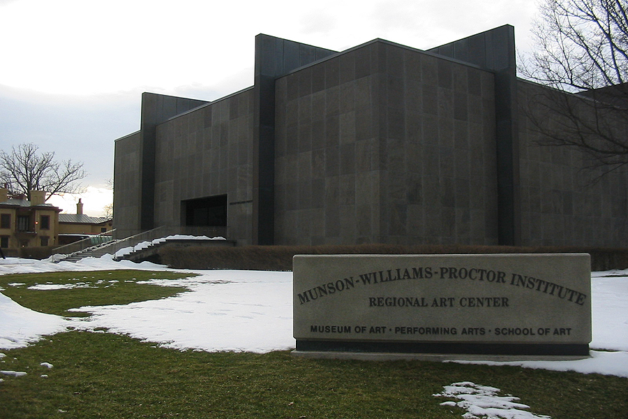 Munson-Williams-Proctor Institute Regional Art Center, at Utica, New York, United States.